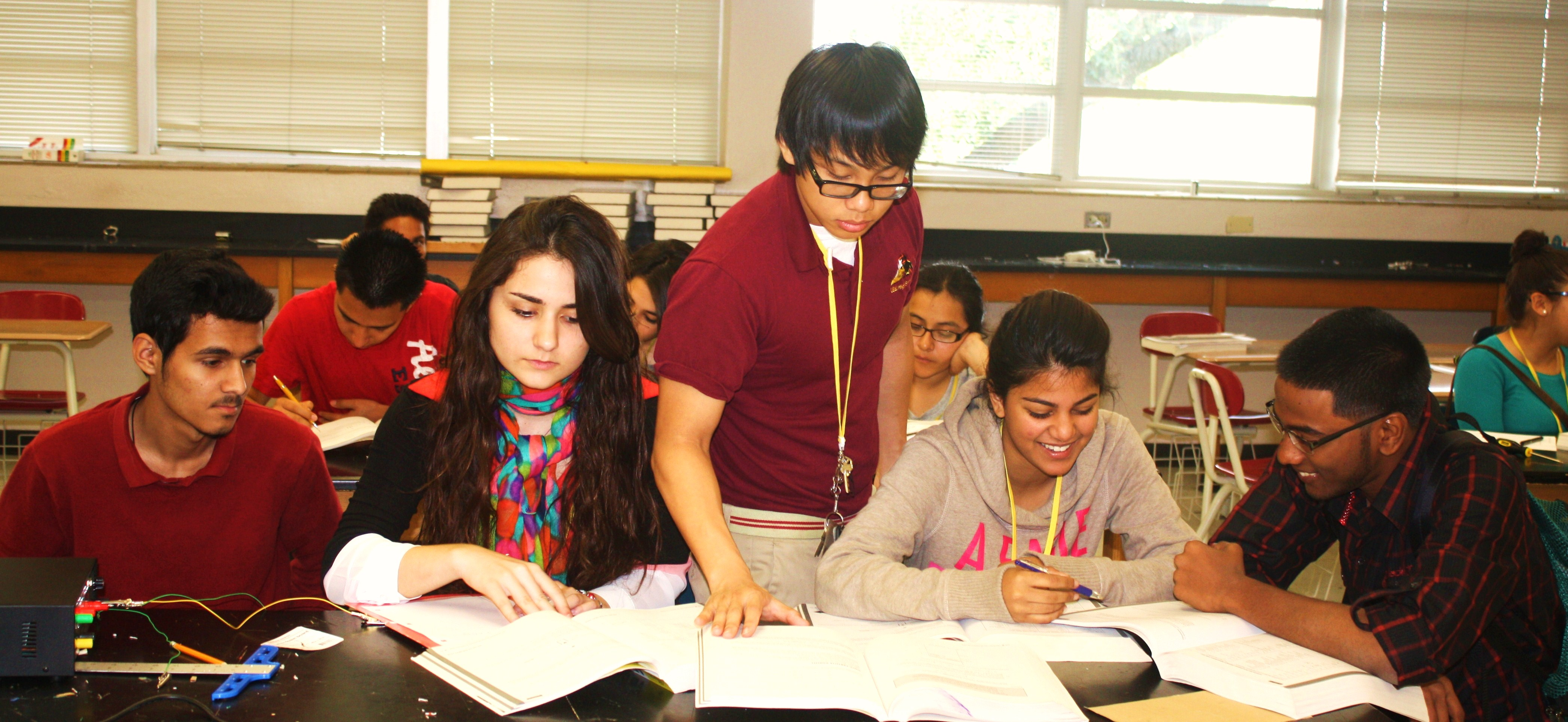 AP students during class reviewing for their upcoming AP exams.